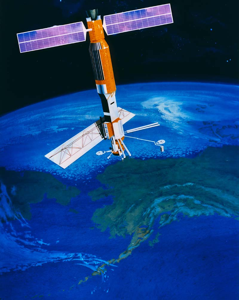 Orginal caption released with the picture: Artist's concept of Seasat